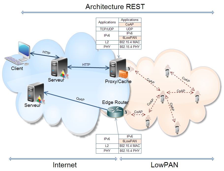 REST Architecture with CoAP version2